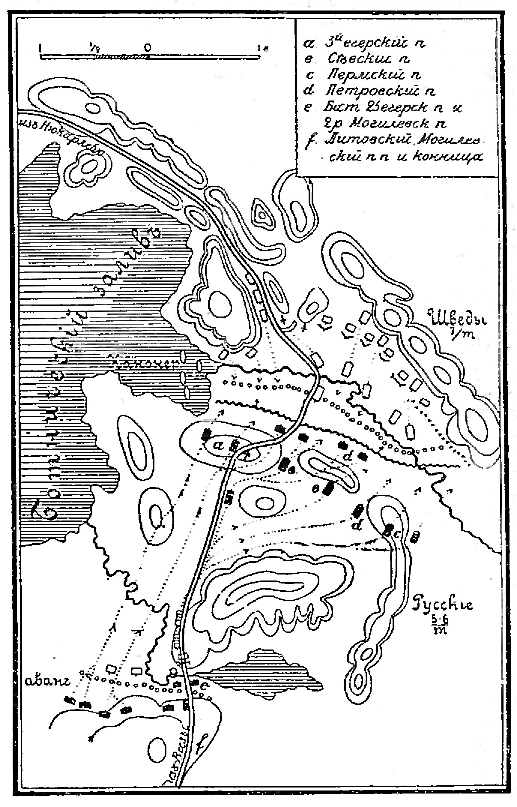 Battle of Oravais